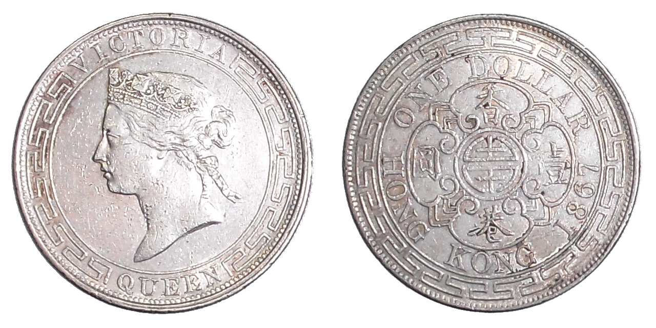 HongKong 1Dollar 1867